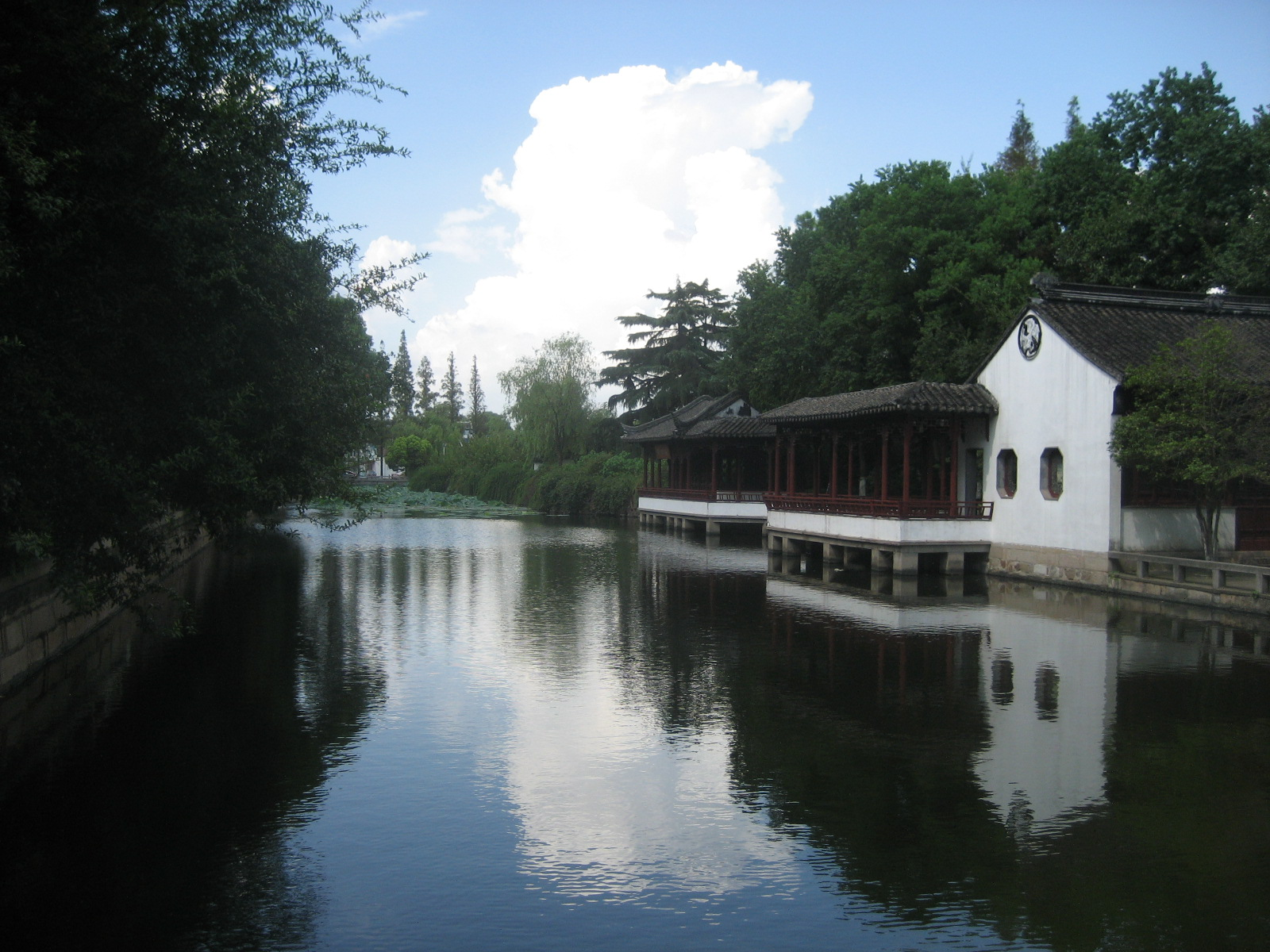 Qing Dynasty garden on the campus of Soochow University, Suzhou, PRC.